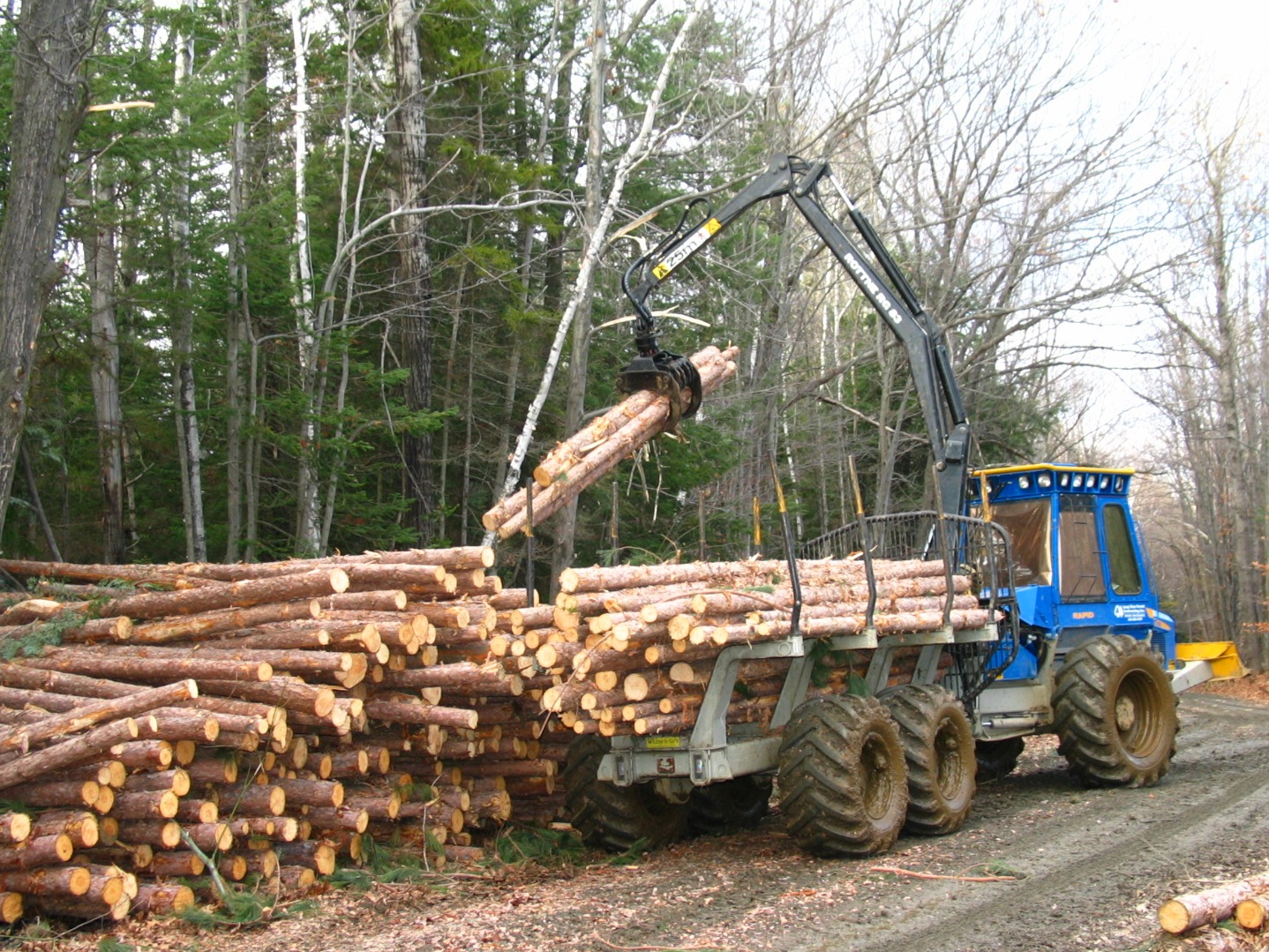 A Rottne Rapid forwarder used in logging.